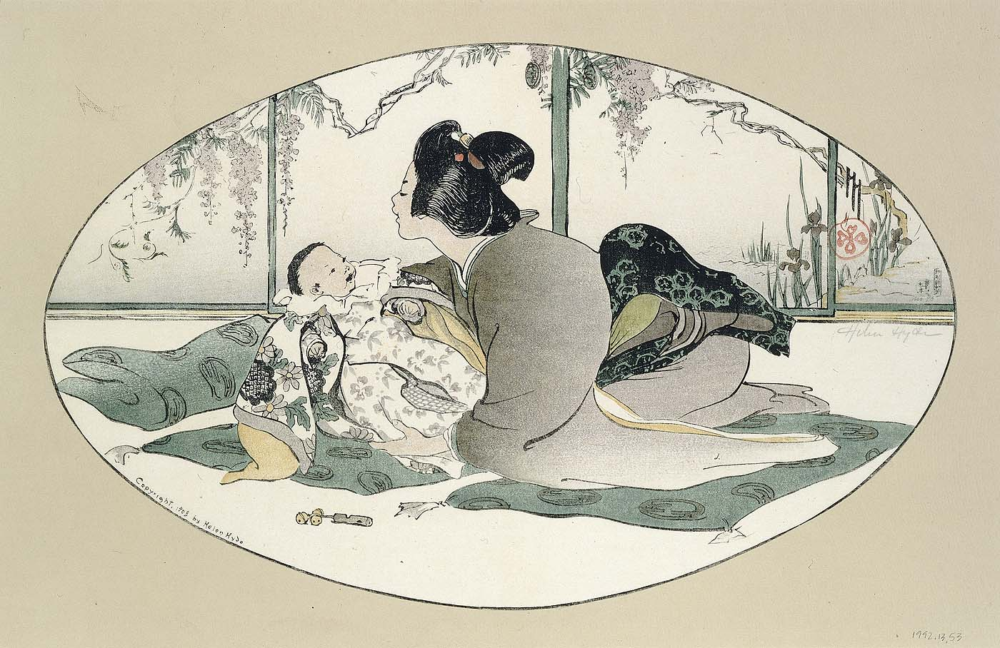 Baby talk - 1908 - Helen Hyde